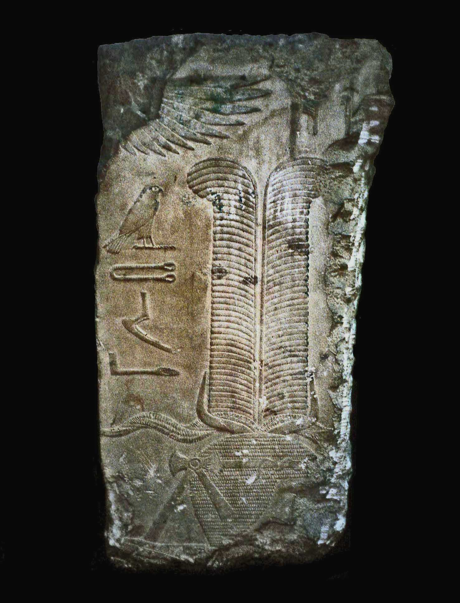 Fragment of a relief depicting pharaoh Userkaf from his funerary temple in Saqqara.